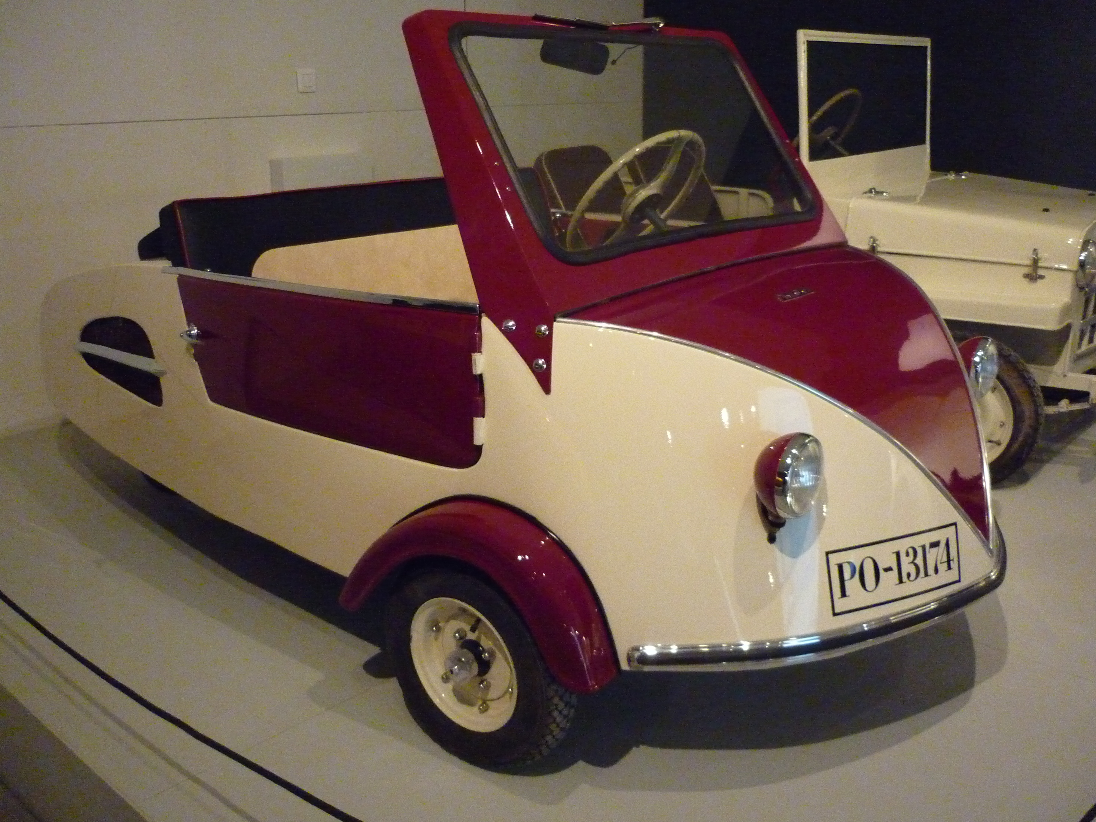 Kapi Chiqui (1956), microcar made in Barcelona (Catalonia)